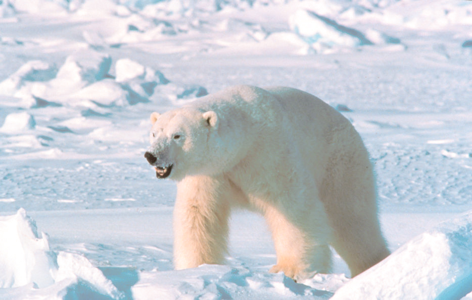 A polar bear (Ursus maritimus) walks in the snow (Alaska)